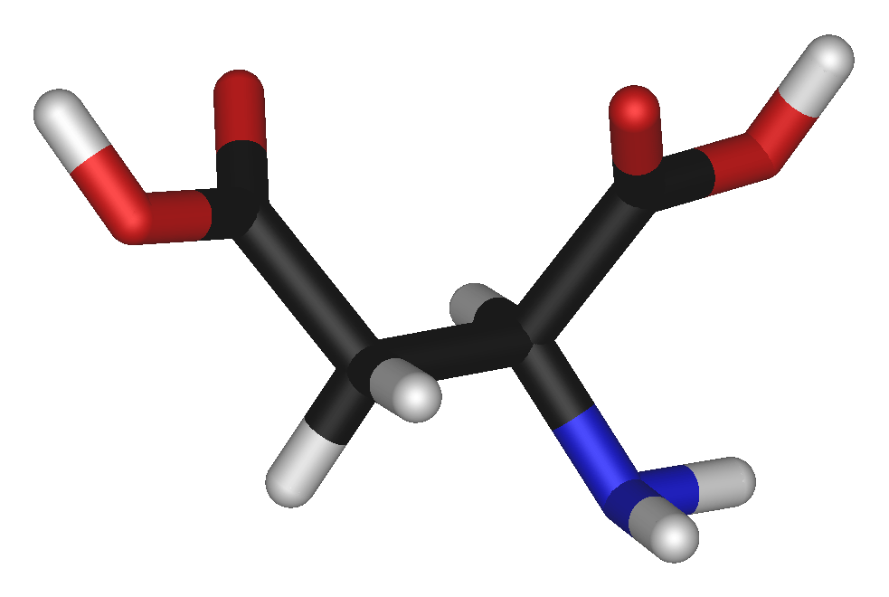 Aspartic acid 3-d sticks image from Benjah-bmm27 rotated 90° clockwise